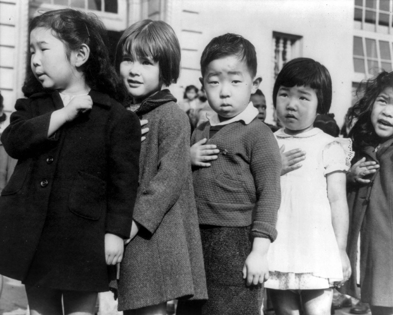 First-graders, some of Japanese ancestry, at the Weill public school, San Francisco, Calif., pledging allegience to the United States flag. The evacuees of Japanese ancestry will be housed in War relocation authority centers for the duration of the war SUMMARY: Relocation of Japanese-Americans. Calif. SUBJECTS: World War, 1939-1945--Japanese Americans--California--San Francisco. MEDIUM: 1 photographic print.